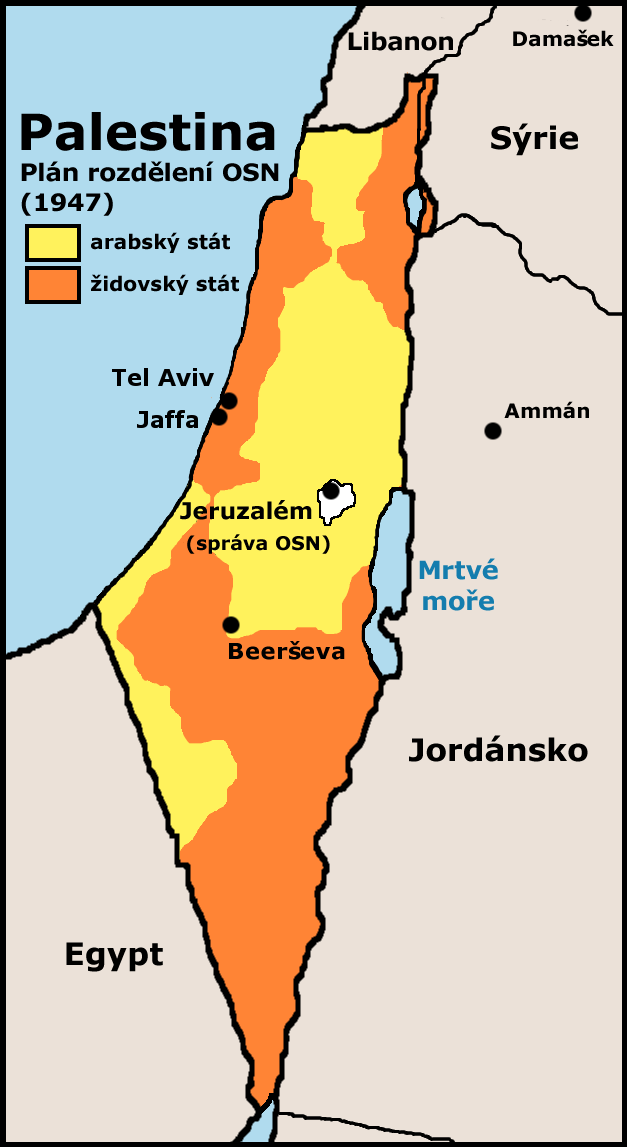 UN 1947 partition plan for Palestine Immediate source: Image:UN Partition Plan For Palestine 1947.png.